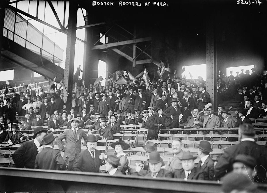 Contingent of Boston fans at Philly's Shibe Park to root on the Braves, 1914 World Series Game 1. Cropped at edges